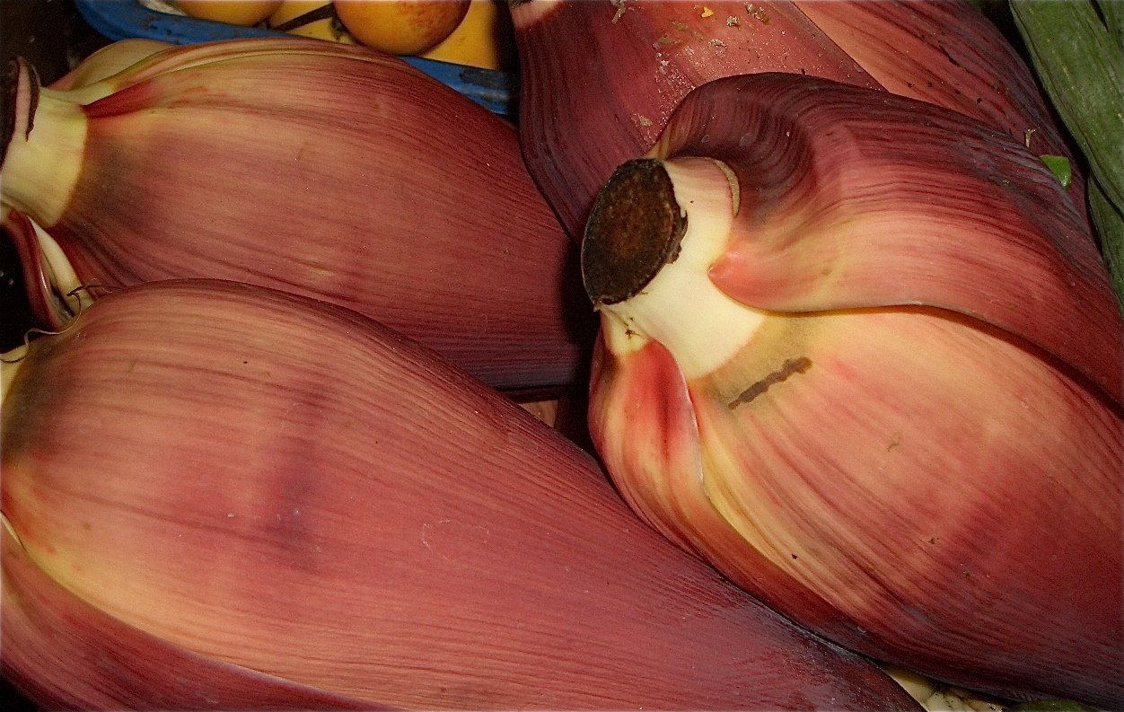 banana blossom (blossom, heart, bud)